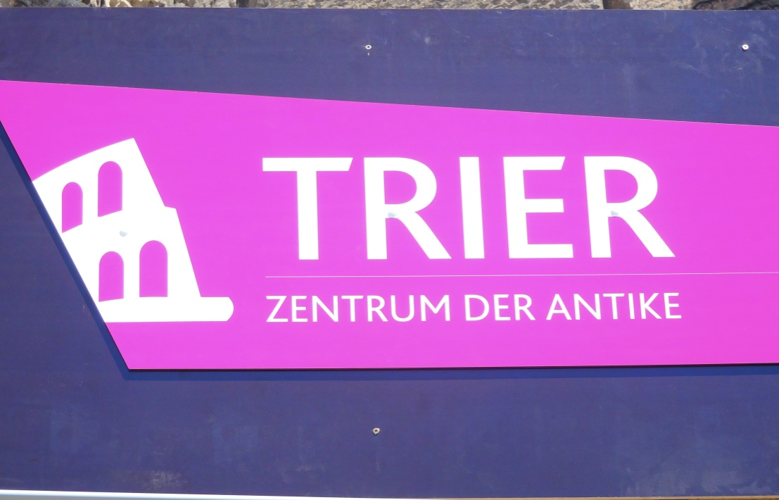 A sign in Trier's tourist district: "[das] Zentrum der Antiken" means "the centre of antiquity (the classical era)".